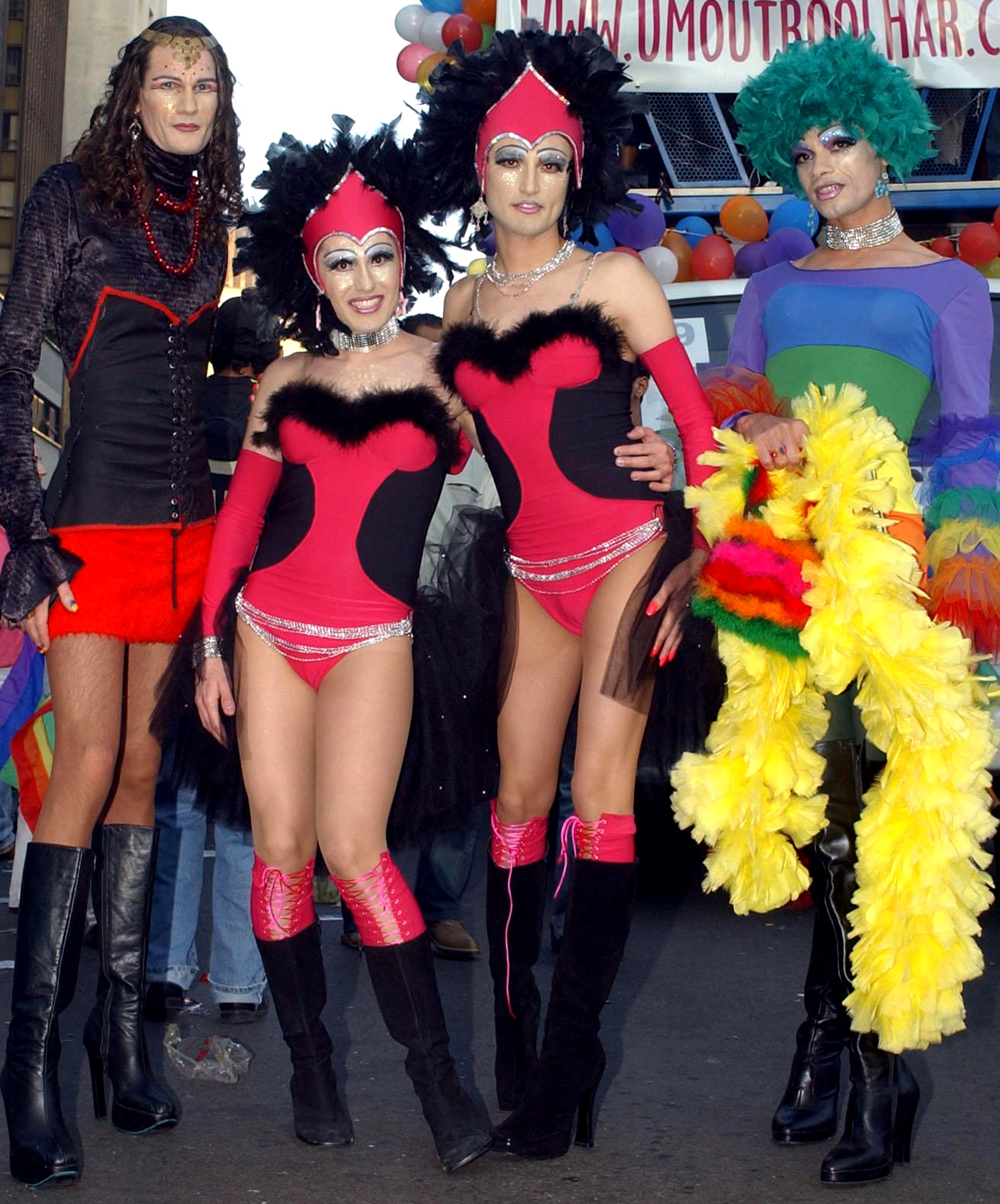 VIII Gay Pride in São Paulo, Brazil